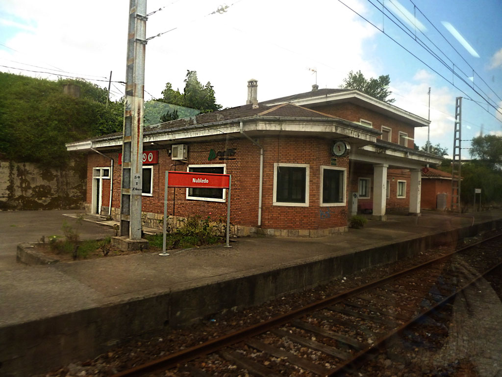 Nubledo railway station, Asturias.